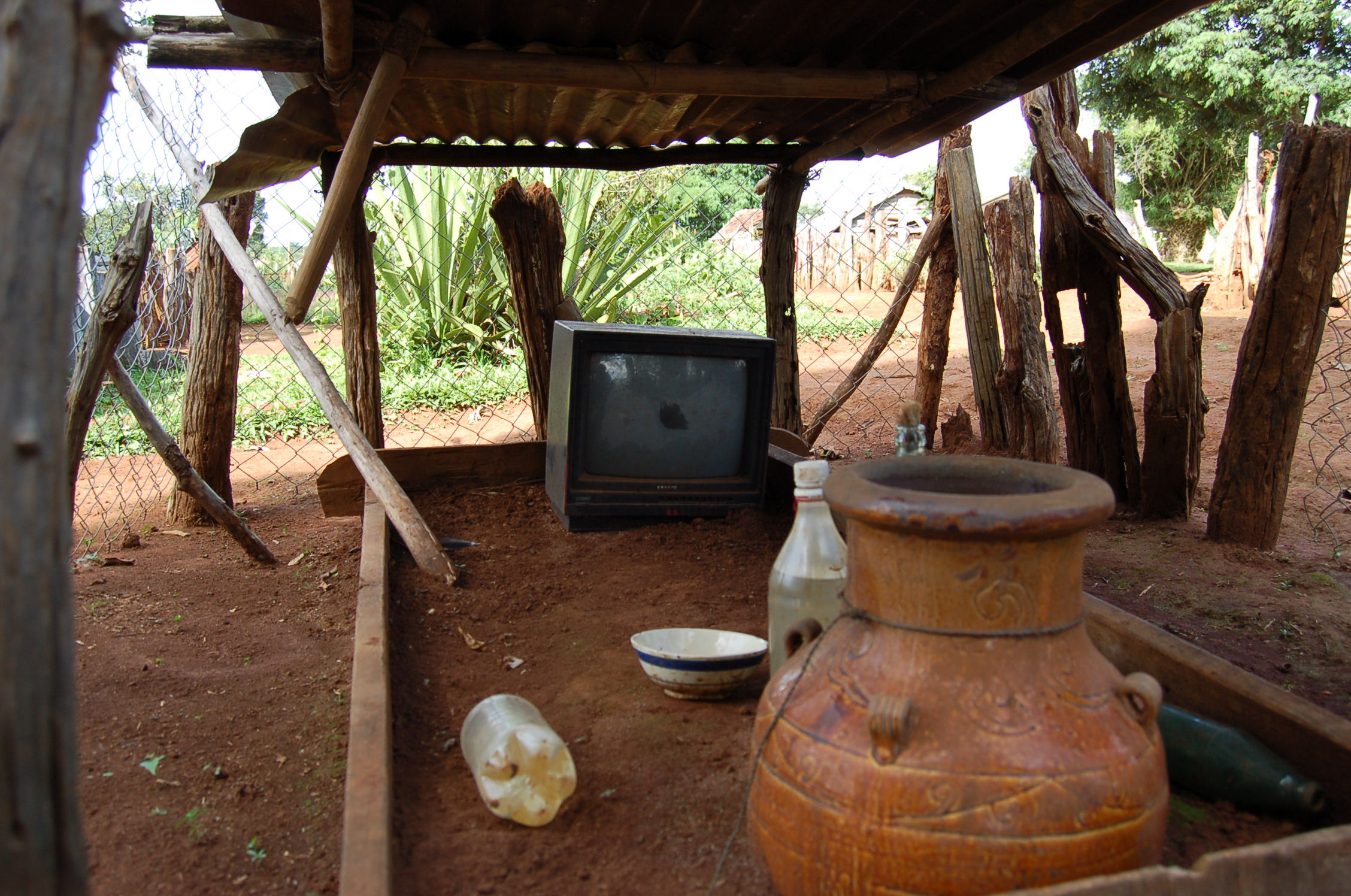 Inside shot of a Jarai tomb in a small cementery not far away from Kon Tum - includes TV and offerings made to the spirit of the deceased (Central Highlands, Vietnam) - ISO code VN-E-KT